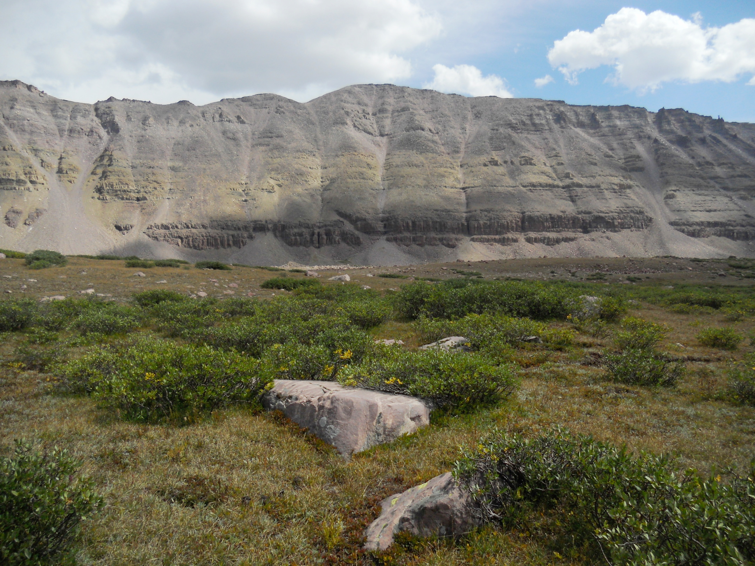 South Kings Peak as viewed from the west. At an elevation of 13,512 ft (4118 m), South Kings Peak is the second highest summit in Utah. It is located in the High Uintas Wilderness within Ashley National Forest. The photo was taken from the Uinta Highline Trail in the Yellowstone Creek Basin.